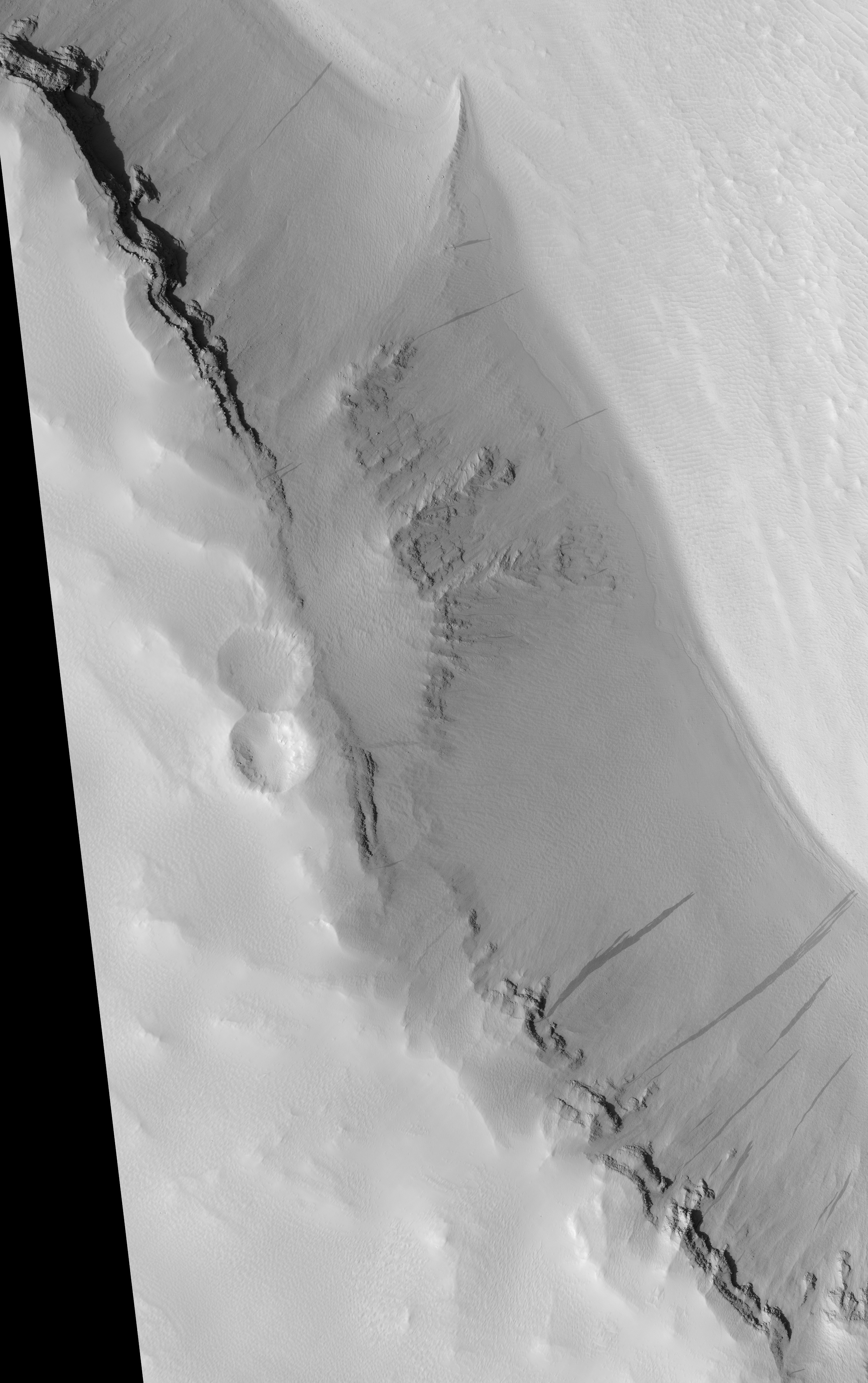 Aganippe Fossa, as seen by HiRISE. Location is 9.8 degrees south latitude and 234.3 degrees east longitude. Image was taken by the Mars Reconnaissance Orbiter's HiRISE. The HiRISE camera was built by Ball Aerospace and Technology Corporation and is operated by the University of Arizona.